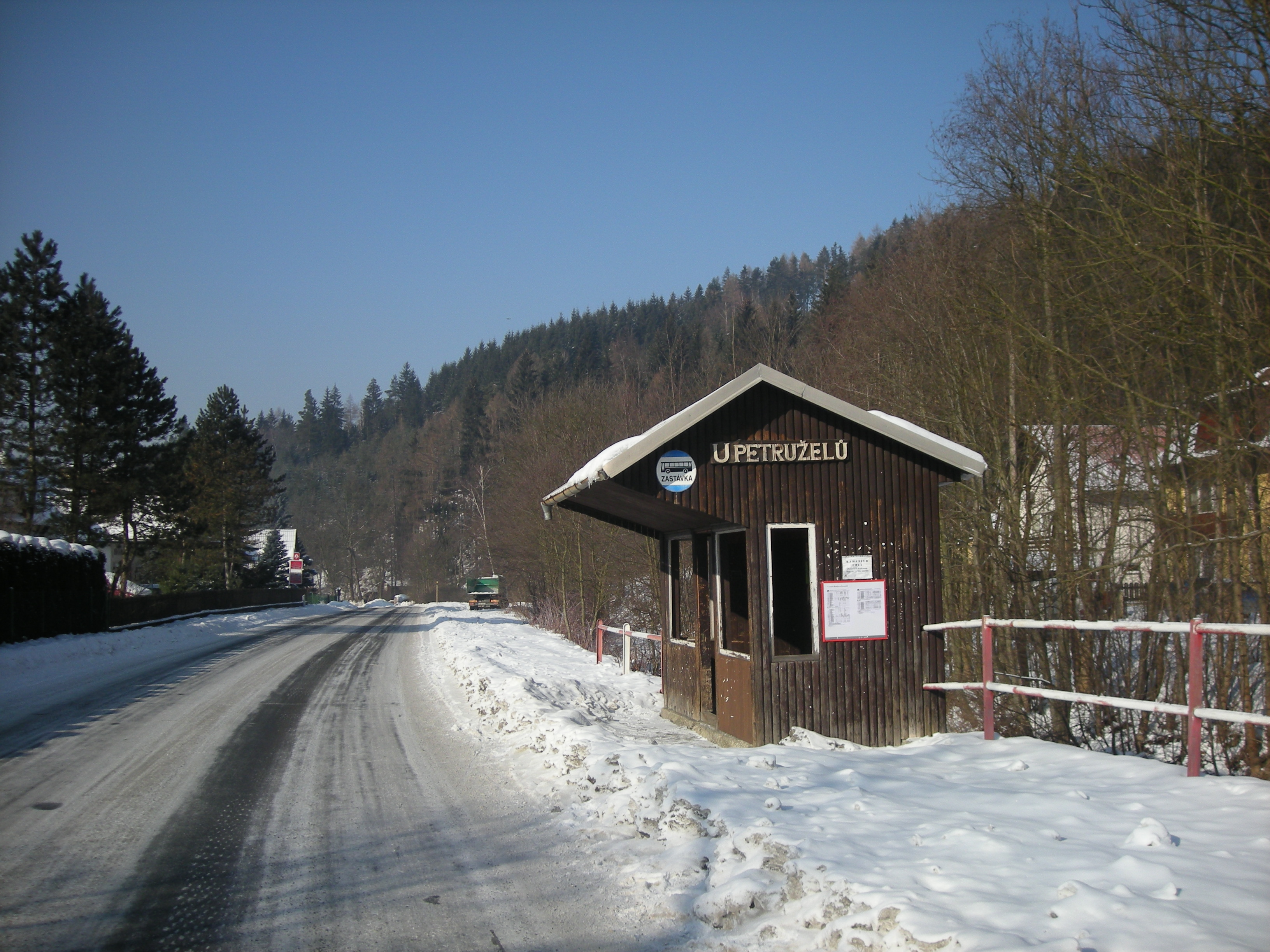 Bus stop Valašská Bystřice, U Petruželů